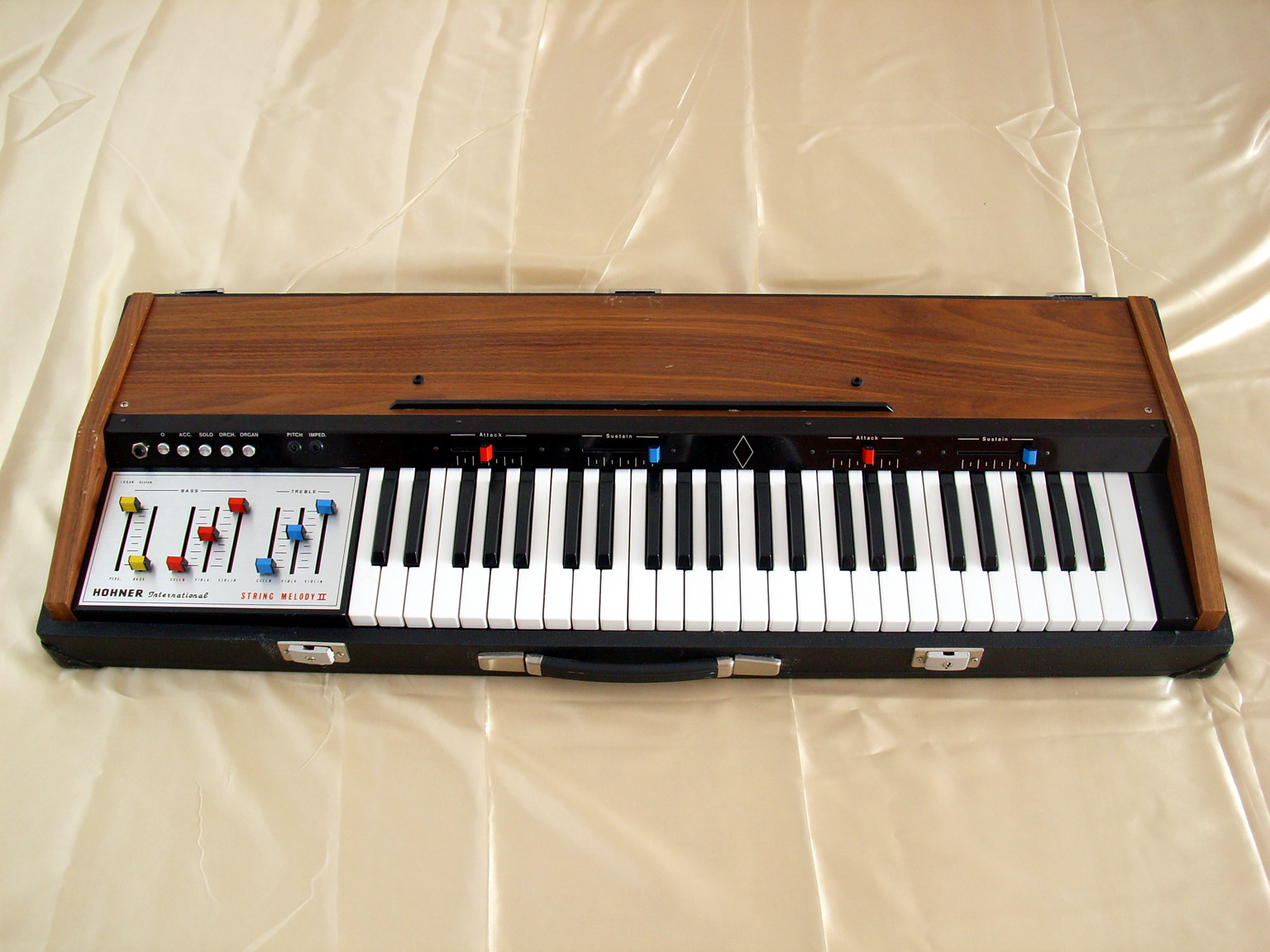 Logan String Ensemble II (on outside Italy, distributed by Hohner brand)